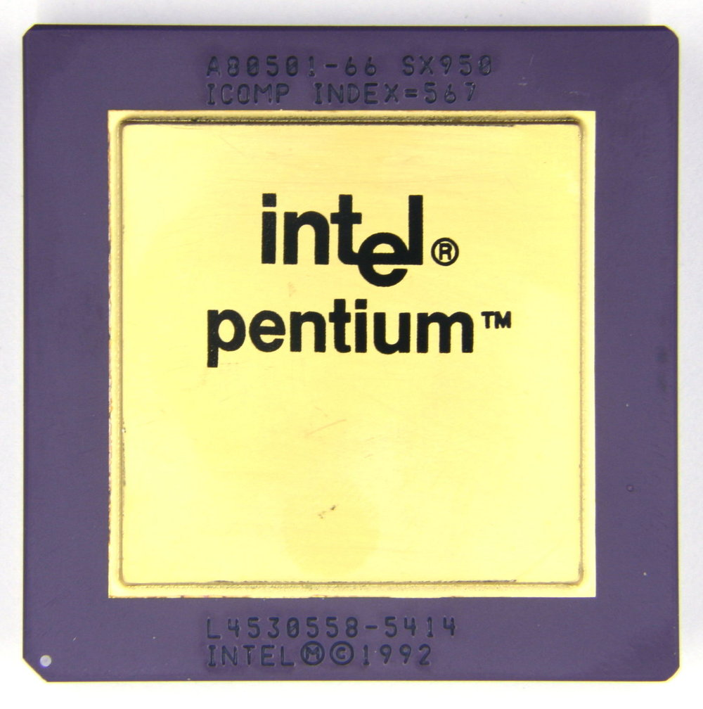 IC photo